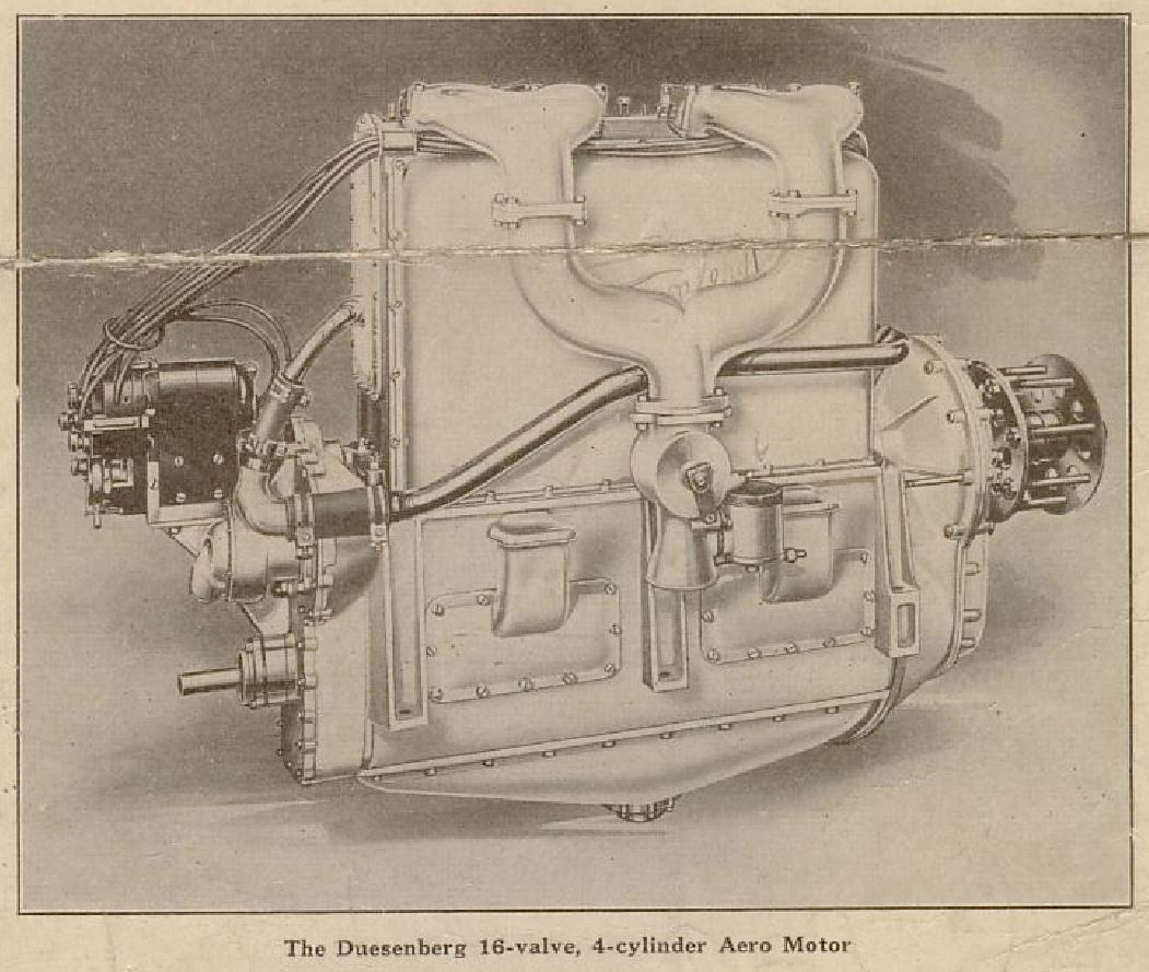 Duesenberg Walking Beam 4 cylinder, 8 valve aircraft engine (1917) as shown in Aerial Age Weekly, 23. April 1917.